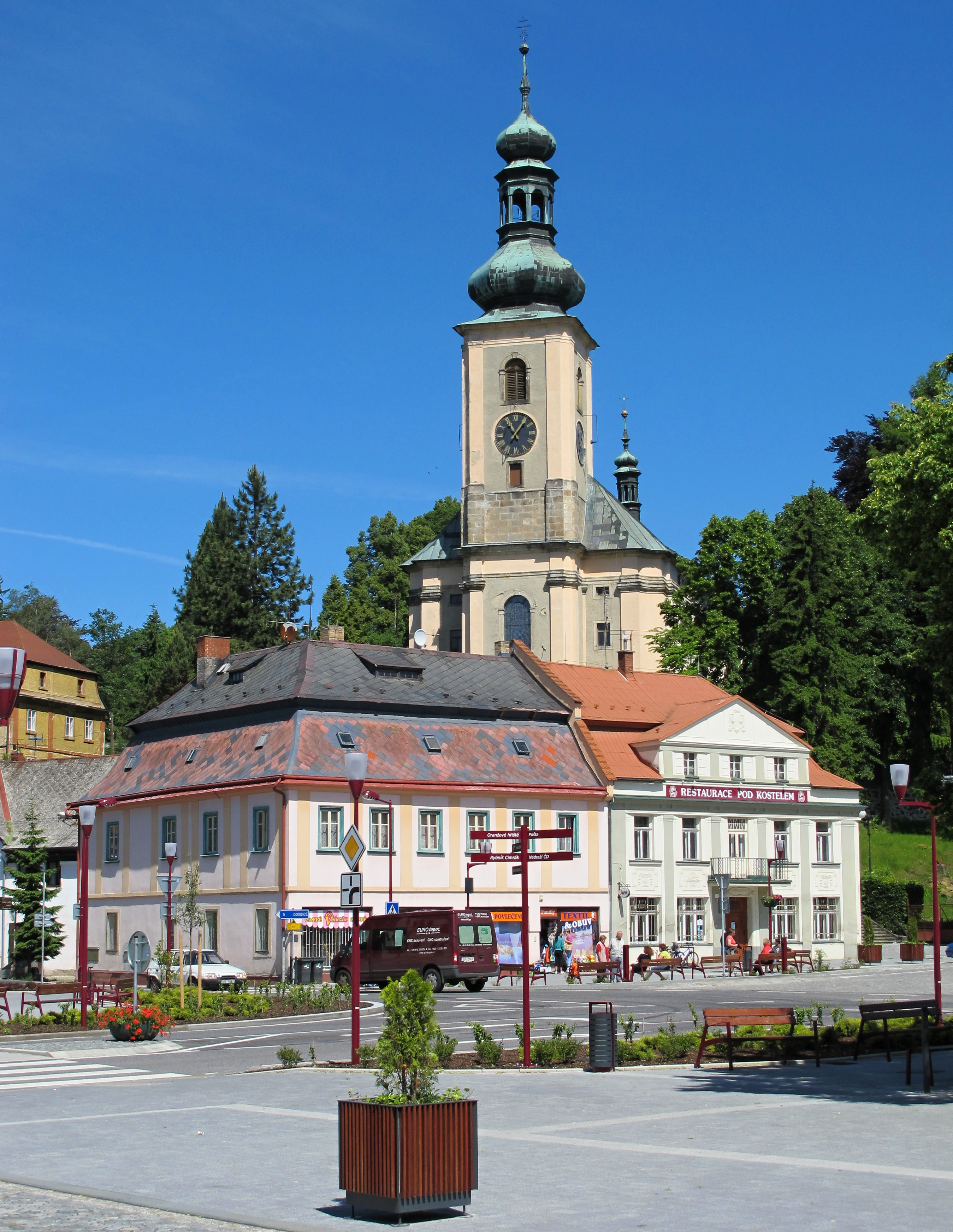 church and Křinice Square in Krásná Lípa, Děčín District